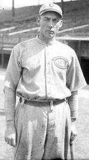 Edd Roush of the Cincinnati Reds at Weeghman Park in 1919.